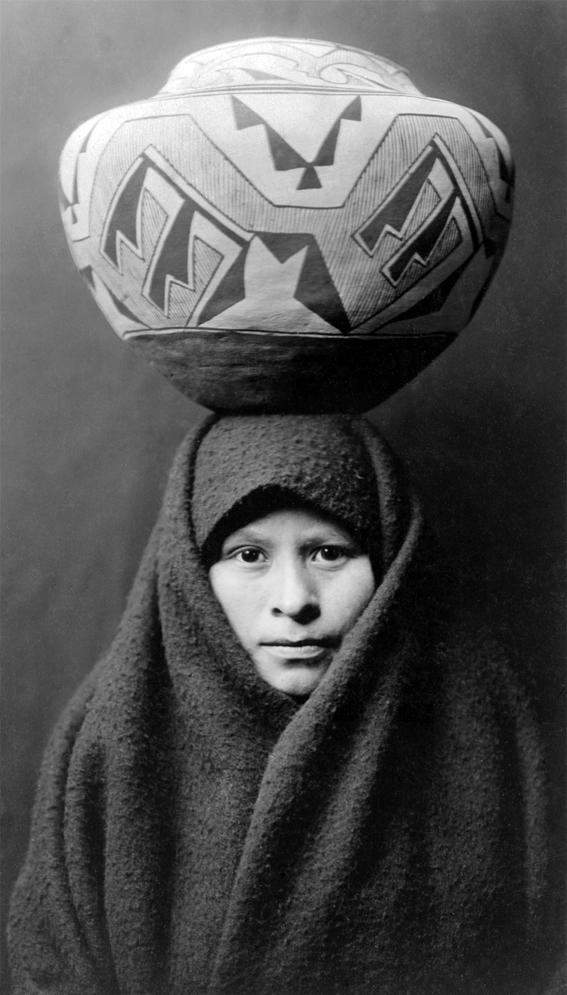 "Zuni girl with jar" (c.1903). A girl of the Zuni tribe, headcarrying a Native American pottery jar, in New Mexico. From The North American Indian, by Edward S. Curtis.